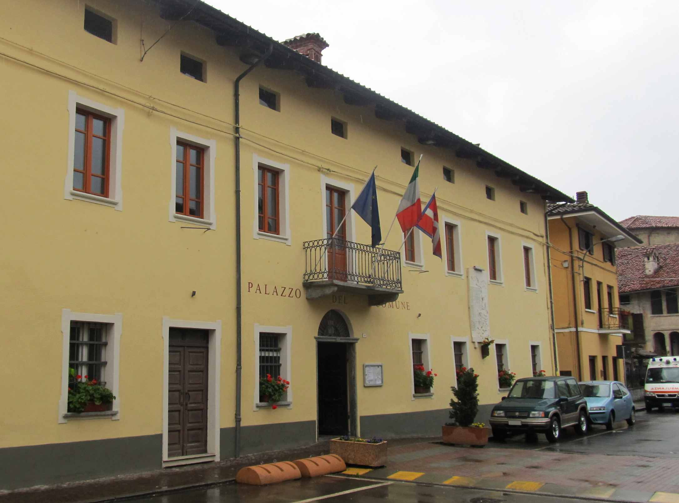 Albiano d'Ivrea (TO, Italy): town hall